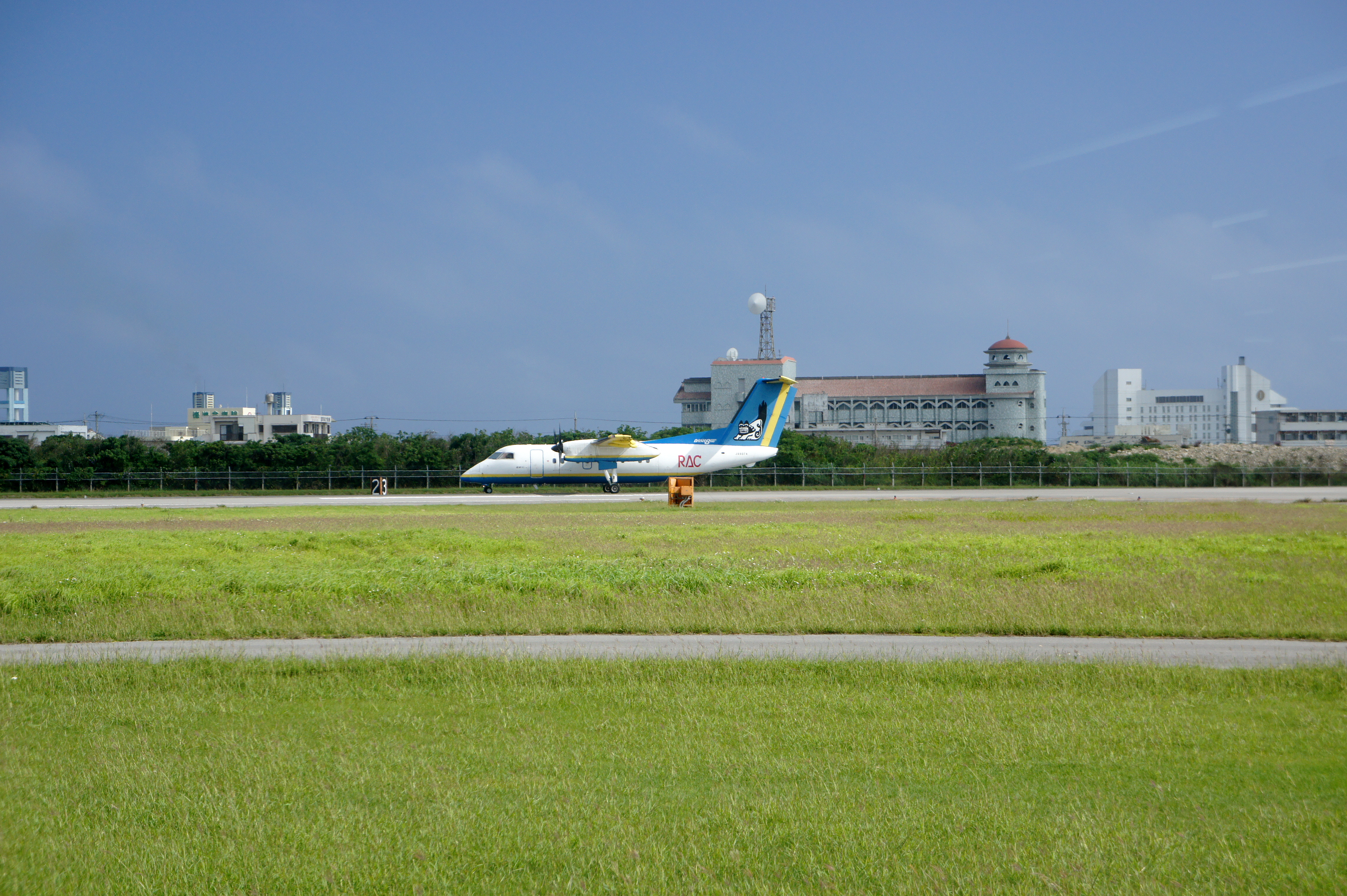 Ishigaki Airport in Ishigaki Island, Ishigaki City, Okinawa Prefecture, Japan.